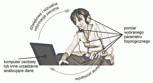 Biofeedback sesion